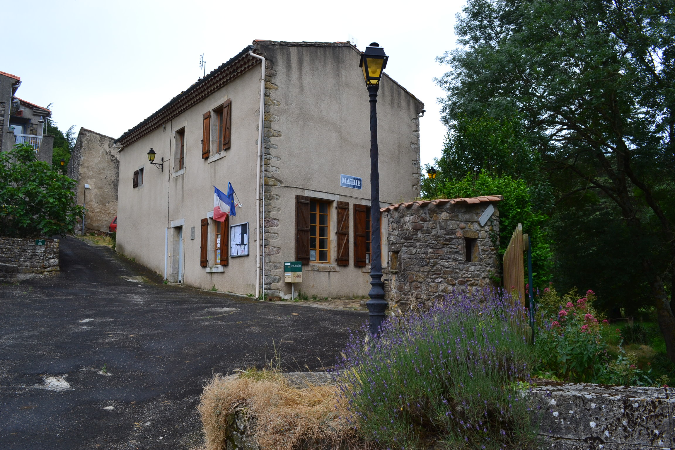 Town hall of Clermont-sur-Lauquet, Dept. Aude, France.